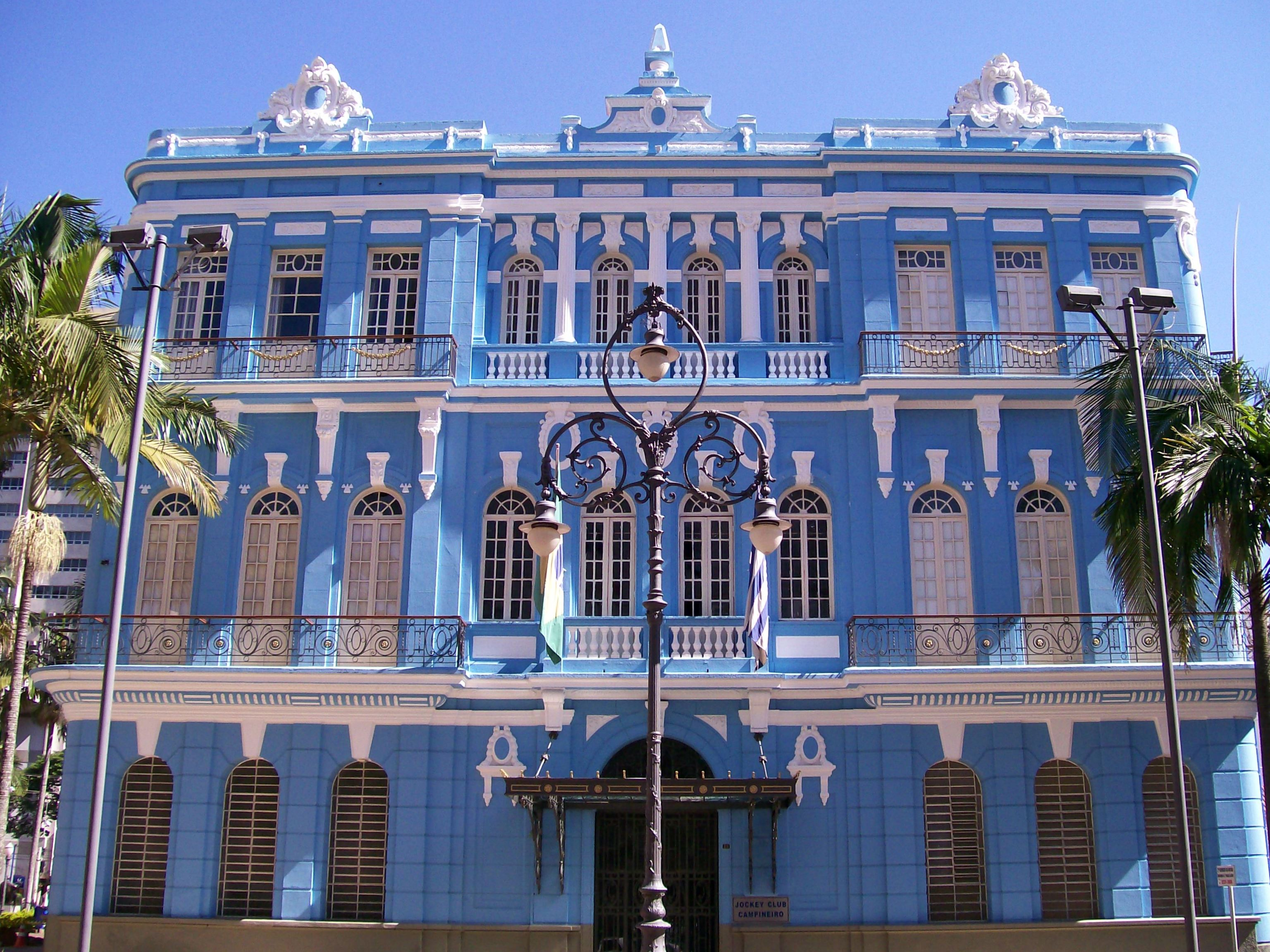 Jockey Club Campineiro façade, downtown Campinas, Brazil.